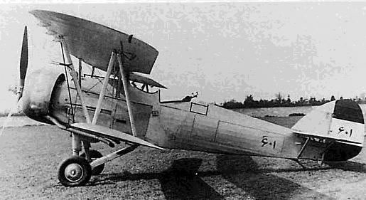 IIAF acquired 55 Hawker Hind fighters from the USA at 1938.